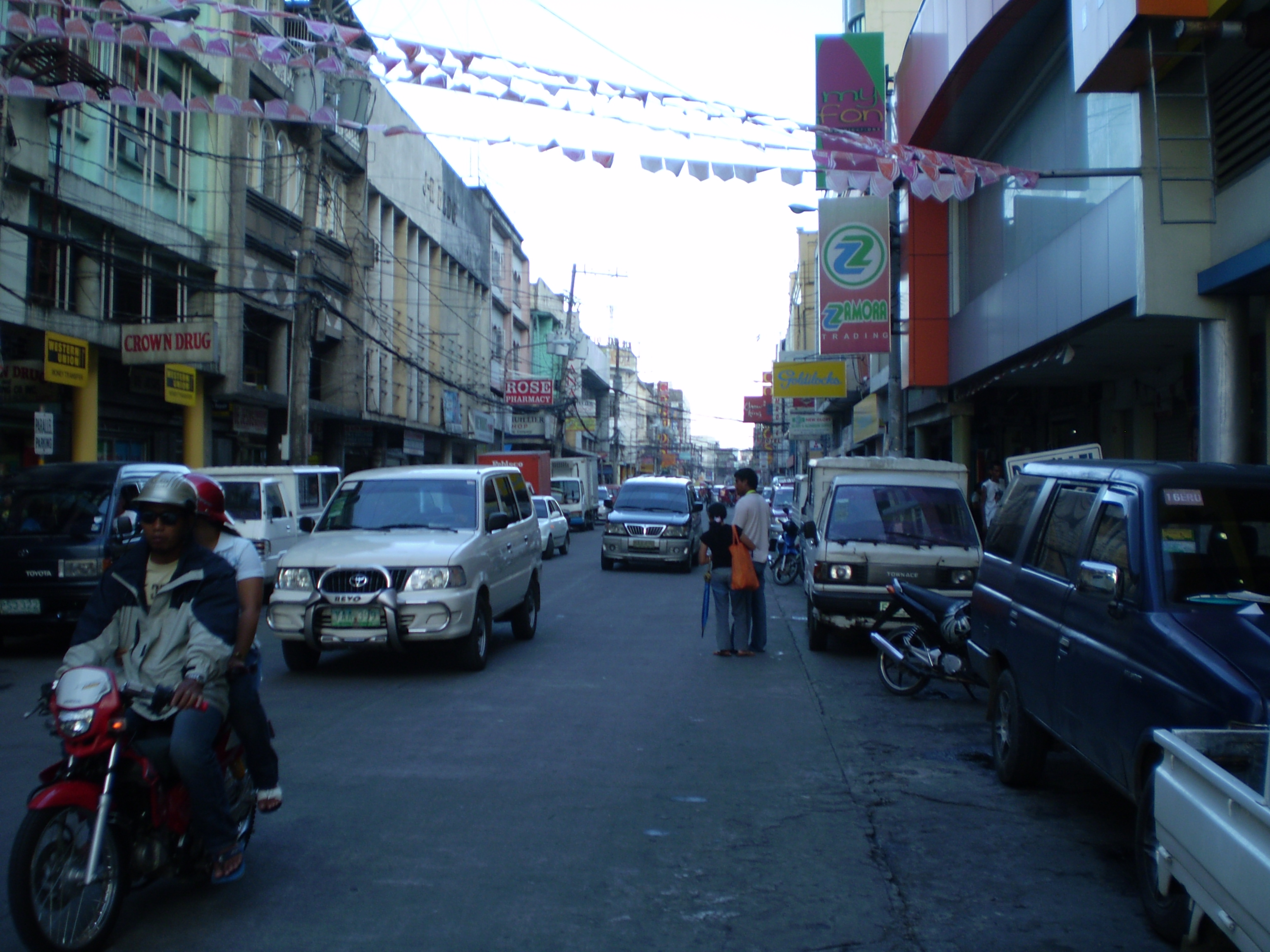 Zamora Street, Downtown Tacloban, Philippines